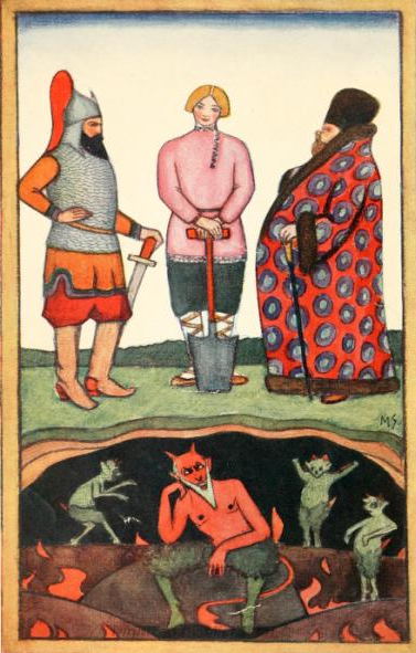 Tolstoy illustration